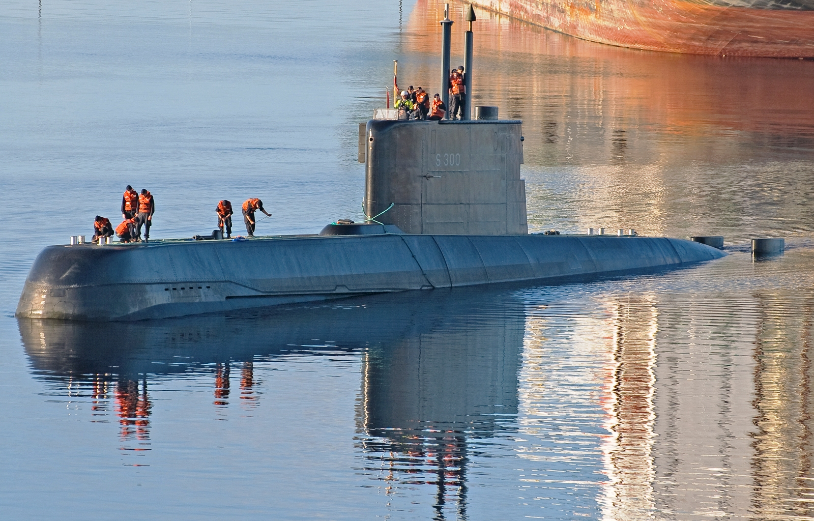 Leith Docks: HNoMS Ula (S 300).